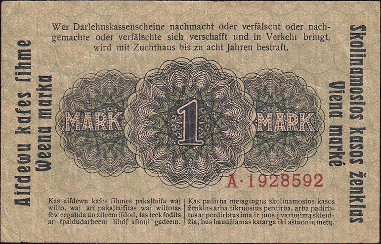 "Eine Mark" of "Darlehnskasse Ost", reverse side. Scan of banknote (printed in 1918), in use from April until December 1918 in a part of Russia that was occupied by the Germans (and afterwards in Lithuania until October 1922).